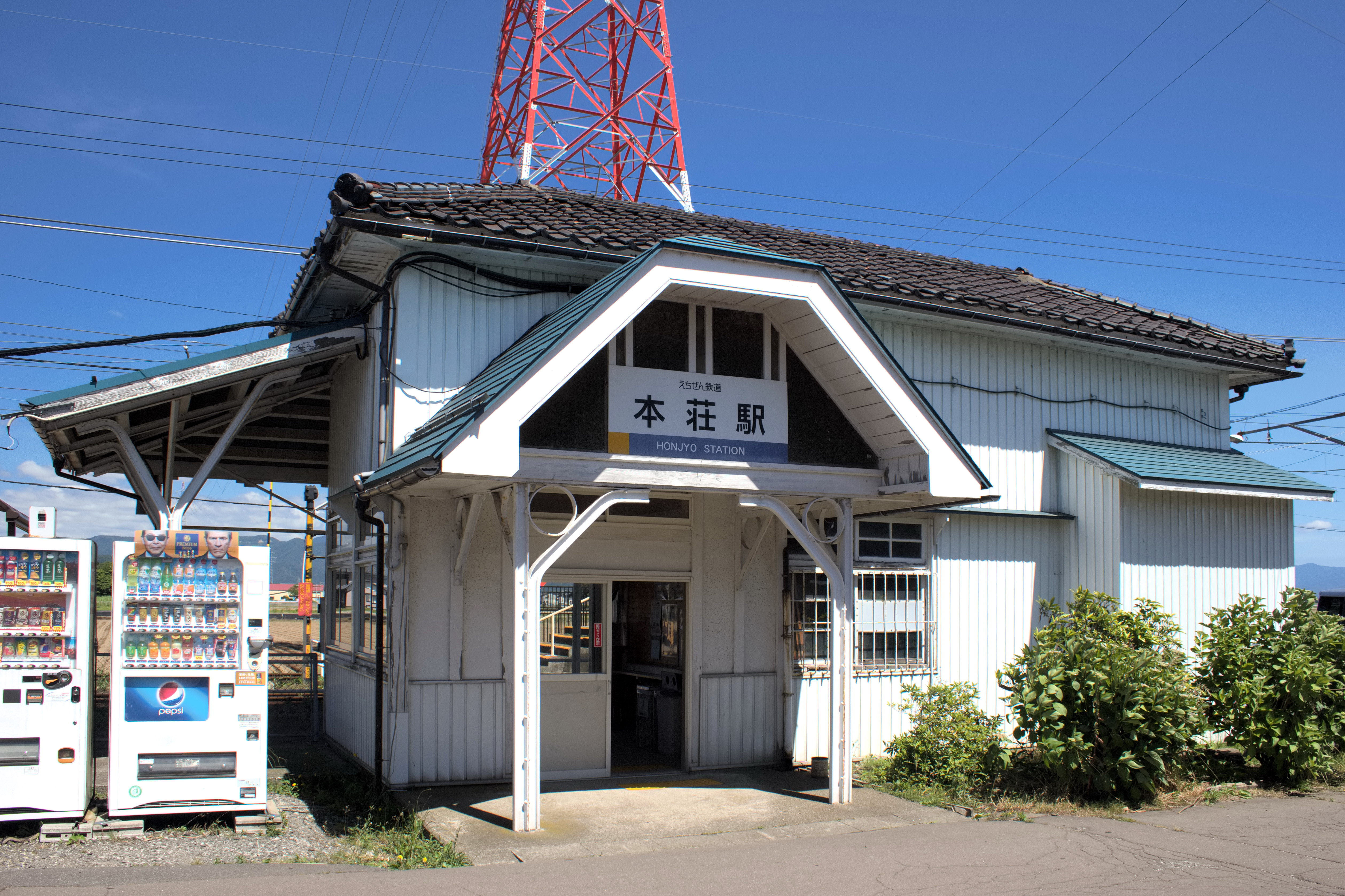 Honjyo Station in Fukui Prefecture, Japan